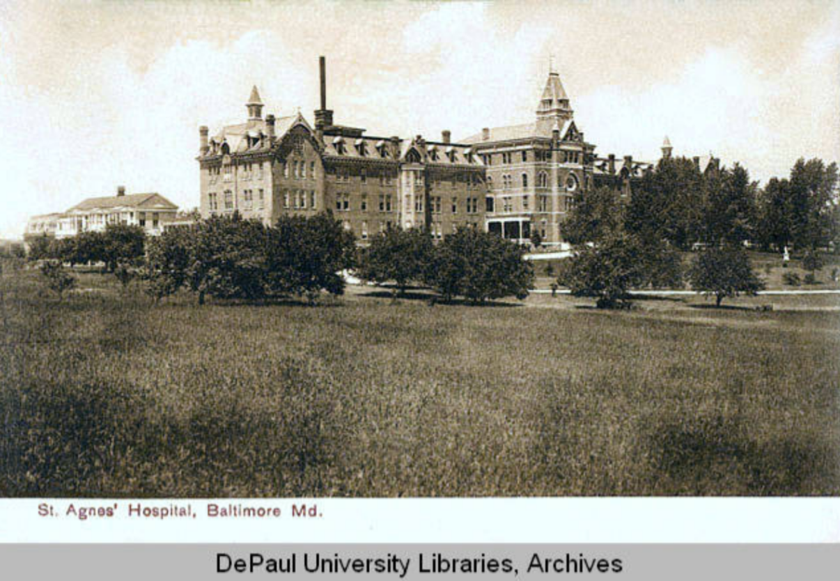 Image of “St. Agnes Hospital” on a postcard published by Hess & Co., Kunstanstalt, Colin-Suiz, 1913, from the "Vincentiana Collection - Postcards" of DePaul University Library Digital Collections, Special Collections and Archives, DePaul University Library, Chicago, IL 60614.